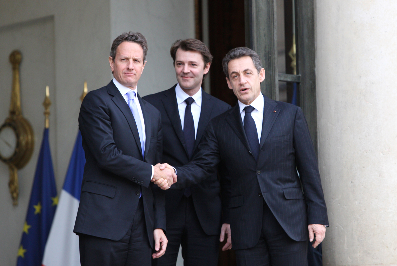 Treasury Secretary Tim Geithner, French Finance Minister François Baroin, and French President Nicolas Sarkozy (L to R) following their meeting at the Elysee Palace in Paris on December 7, 2011. Secretary Geithner met with European leaders on December 6-8, 2011 to discuss efforts to reinforce the institutions of the euro area.